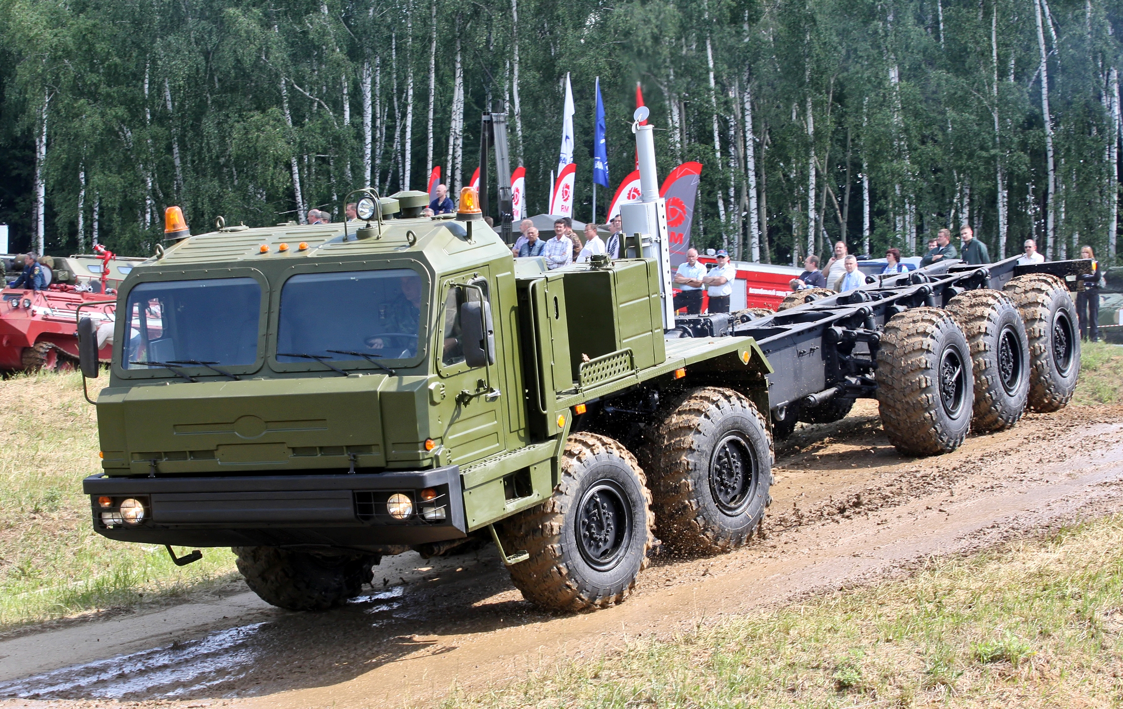 The BAZ-69096 special wheeled chassis for the S-400 system.